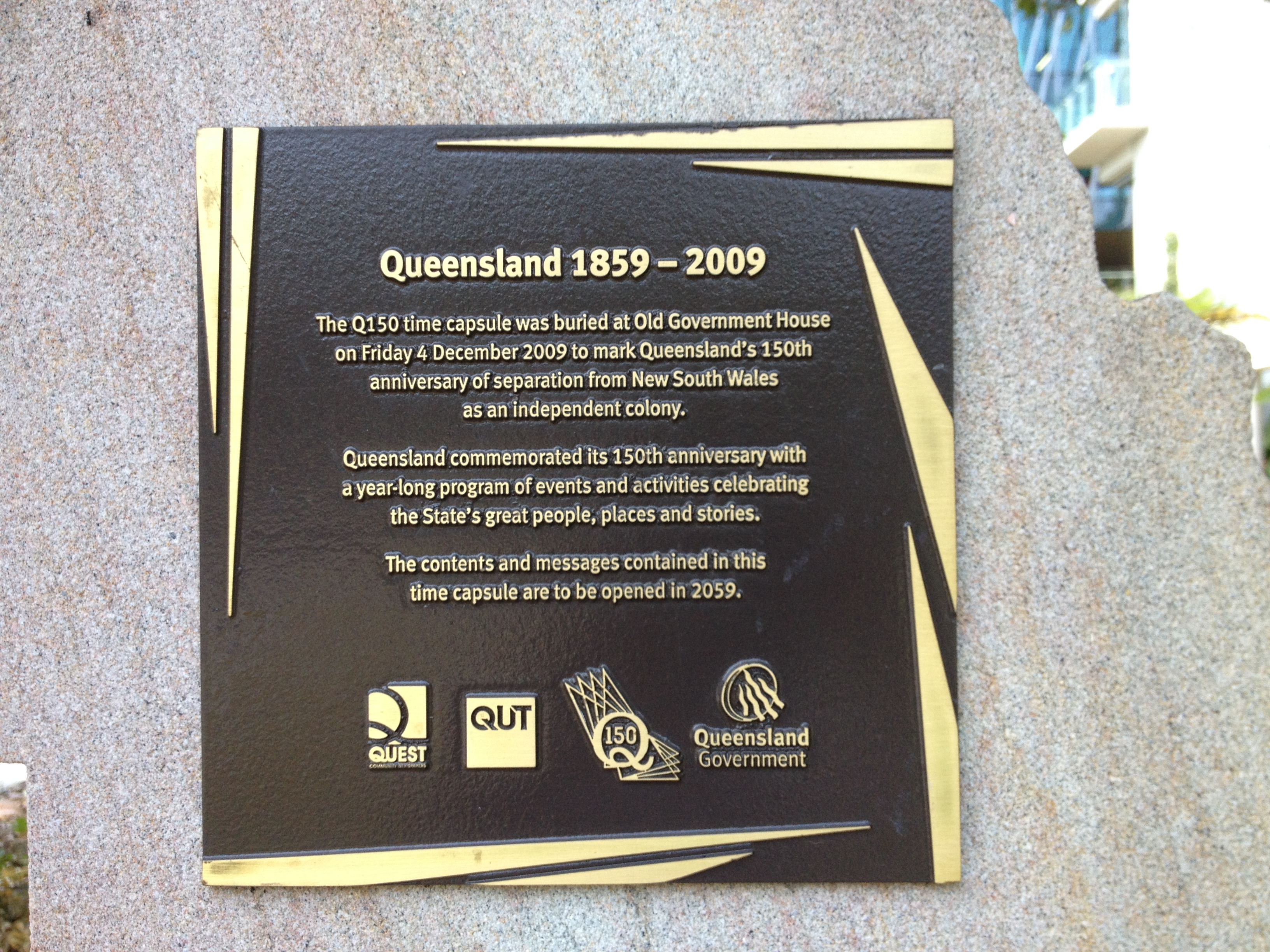 The Q150 time capsule to mark Queensland's separation from New South Wales at the Old Government House, Queensland University of Technology, Gardens Point campus, Brisbane